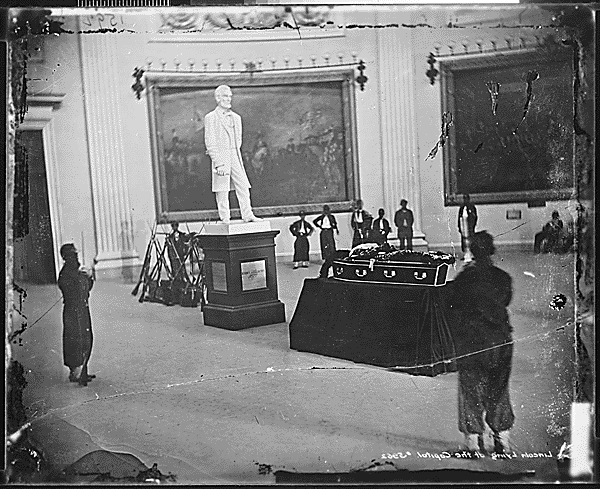 Thaddeus Stevens lying in state in the U.S. Capitol rotunda in August 1868. Members of the Butler Zouaves, an African-American company of the District of Columbia, are serving as honor guards (supposedly 25 guards were on duty, commanded by a Captain Hawkins). The body was brought to the Capitol near mid-day on August 13, and remained on display the rest of the day and through the night. Harper's Weekly reported that five or six thousand people, both white and black, viewed the body. Funeral services were held the morning of August 14 at the Capitol. The written caption on the negative claims the photo is of Lincoln lying in state, and the photo even made it into the first edition of Stefan Lorant's Lincoln: His Life in Photographs (page 121) in 1941 on those grounds, but that is a mistake. Lincoln scholars, following the publication of Lorant's book, determined the true event and the photo was omitted from later editions. The plaster statue of Lincoln behind the casket was credited to "Henry J. Ellicott" on a plate on the pedestal, who was a young sculptor at the time (probably born 1847). It had been in the rotunda for more than a year, as scholars found another photograph of it dated June 1867, and there are other photographs of it dated 1866. The best guess is that Ellicott submitted it for the Lincoln Monument Association's contest for a marble statue, which had been opened not long after Lincoln's death. The contest was eventually won by Lot Flannery, and his finished statue was dedicated on April 15, 1868 (and is still there). Ellicott went on to sculpt several other works, including the Winfield Scott Hancock Memorial on Pennsylvania Avenue, but apparently never did make a finished Lincoln statue.